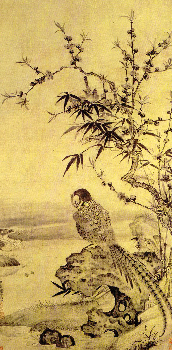 Pheasant and Small Bird with Peach and Bamboo. Painted by Wang Yuan (王渊) during the Yuan dynasty. Hanging scroll, ink on paper. Size: 111.9 × 55.7 cm. Located in the Palace Museum, Beijing. See Barnhart, R. M. et al. (1997). Three thousand years of Chinese painting. New Haven, Yale University Press. ISBN 0-300-07013-6. Page 186